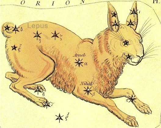 Lepus the Hare by Samuel Leigh